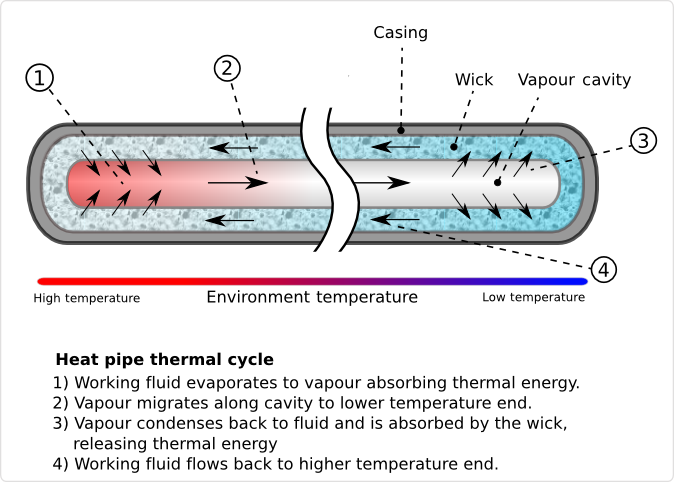 Heat pipe Mechanism diagram showing thermal cycle and components. Created by User::Zootalures on 15/9/2006